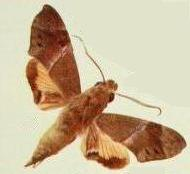 Plate II 6. Angonyx meeki, ♂, type, Guadalcanar